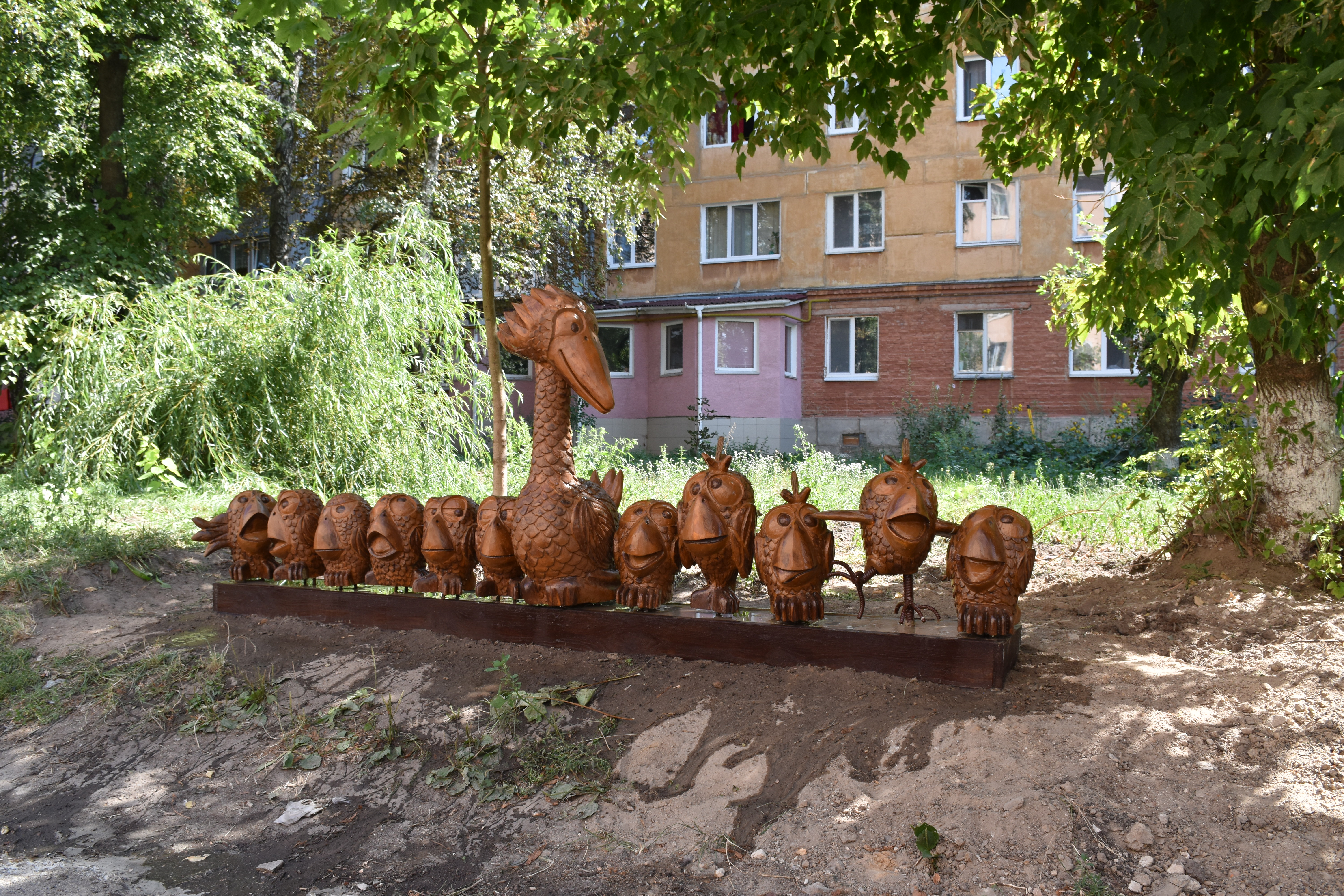 Installation of sculptural composition inspired by the animated film «For the Birds» in Vasylkiv.